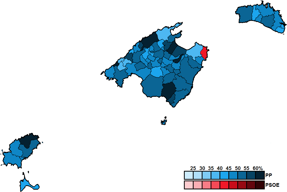 Most-voted party in Balearic Islands municipalities, showing vote share obtained, in the Spanish general election, 2011.